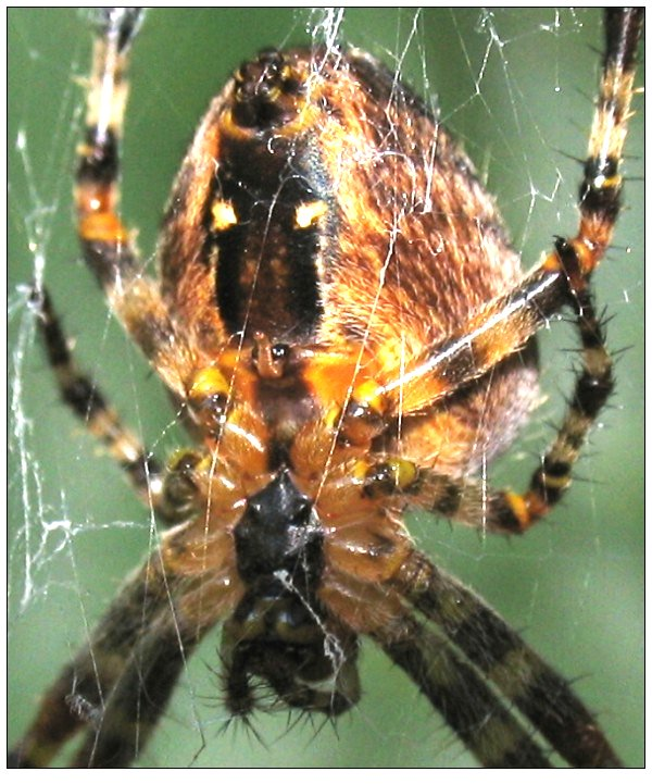 The epigyne or epigynum is the external genital structure of female spiders. As the epigyne varies greatly in form in different species, even in closely related ones, it often provides the most distinctive characteristic for recognizing species. It consists of a small, hardened portion of the exoskeleton located on the underside of the abdomen, in front of the epigastric furrow and between the epigastric plates.